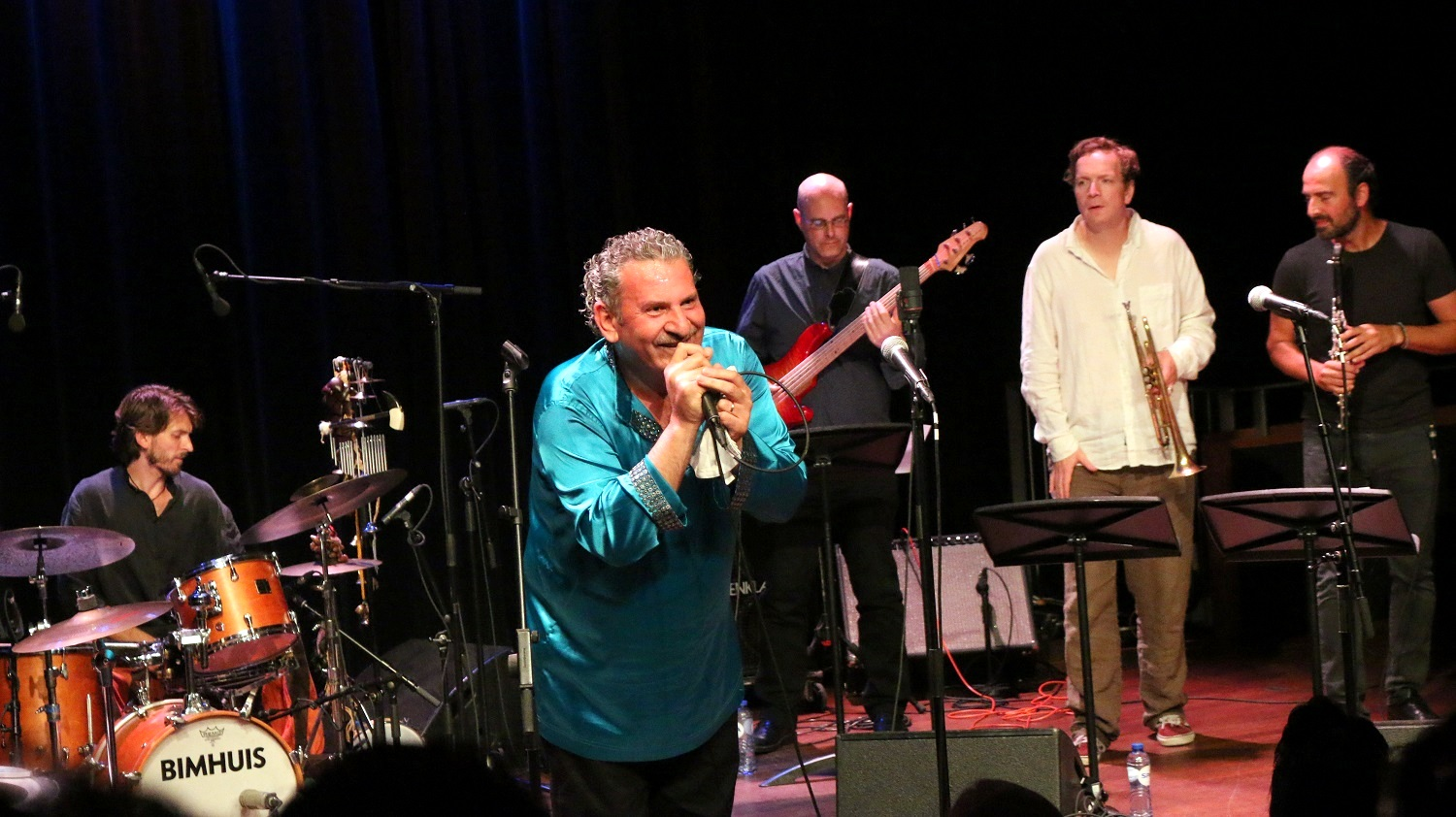 Ibrahim Keivo - ابراهیم کیفو -- Syrian-Armenian Singer at Morgenland Festival, Bimhuis, Amsterdam, July 2015 - Photo: Persian Dutch Network